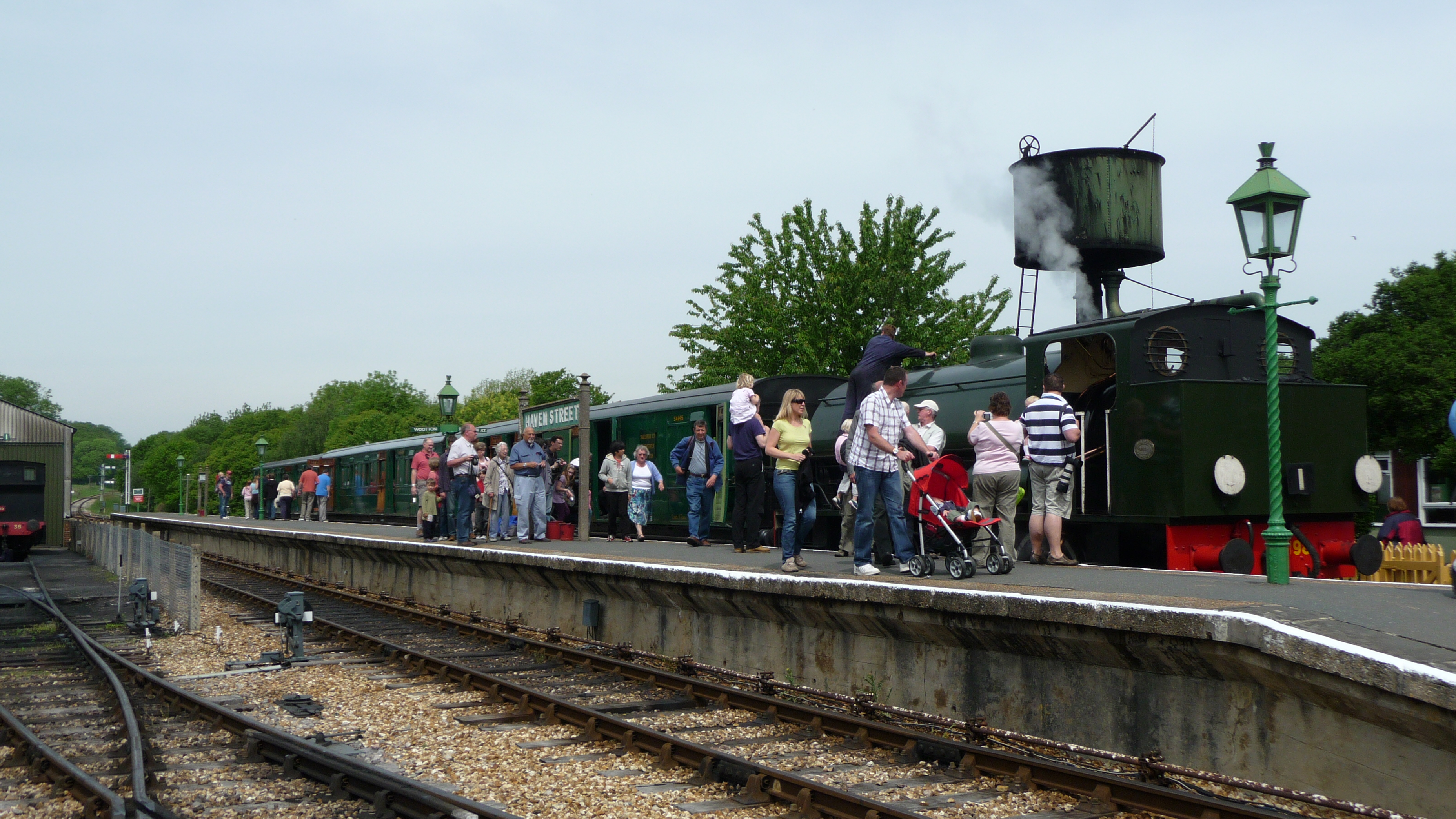 Havenstreet railway station, Isle of Wight, on the Isle of Wight Steam Railway, on the same day as the Bustival event, celebrating the 80th anniversary of bus company Southern Vectis.